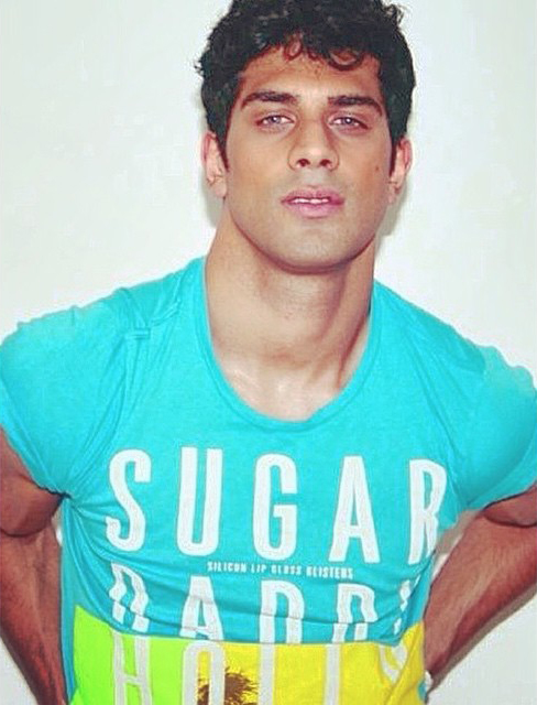 2008 - Akmal Shaukat in Marc by Marc Jacobs T-Shirt - Polaroid